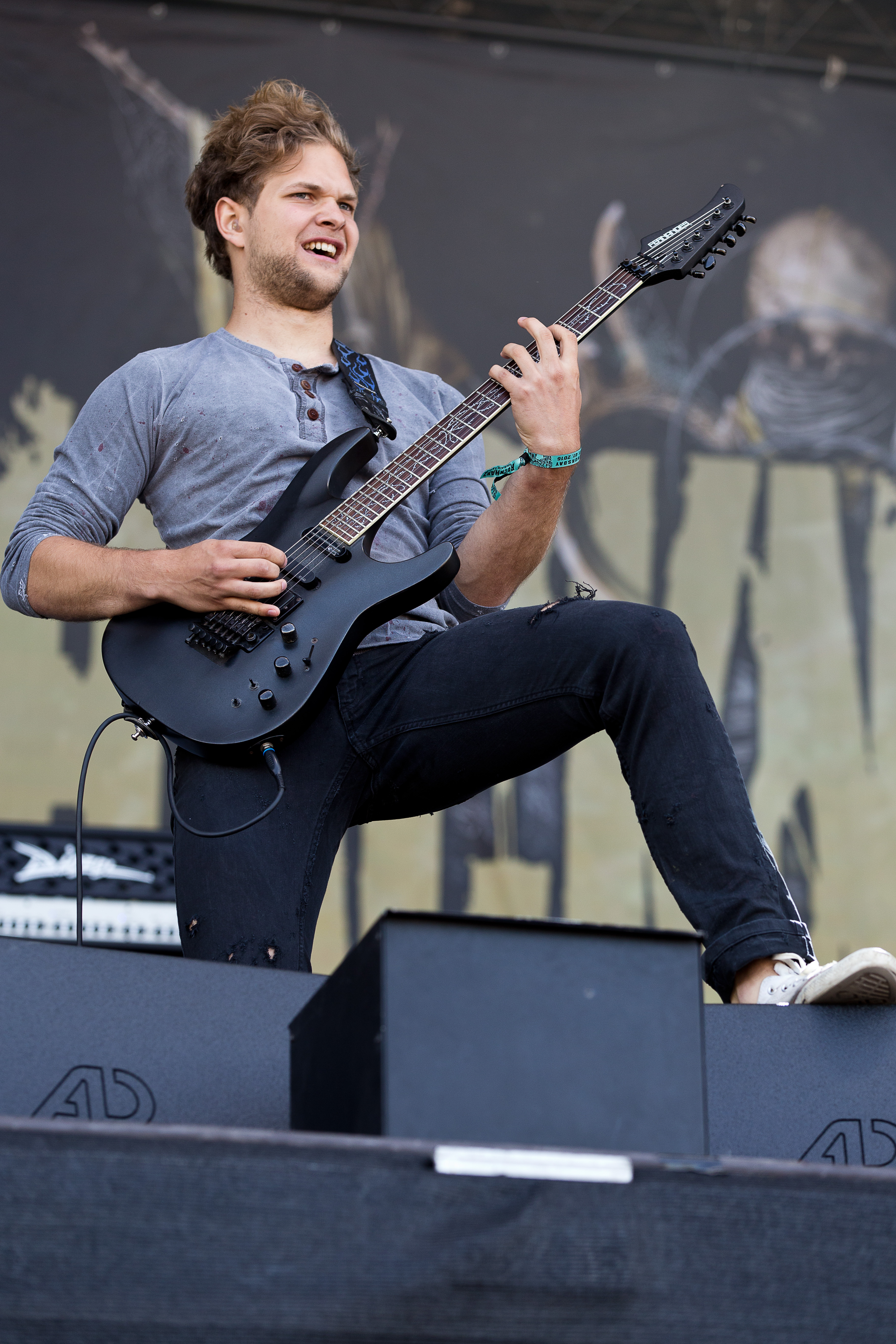 The German death metal band Hackneyed at the Rockharz Open Air 2016 in Ballenstedt/Germany.